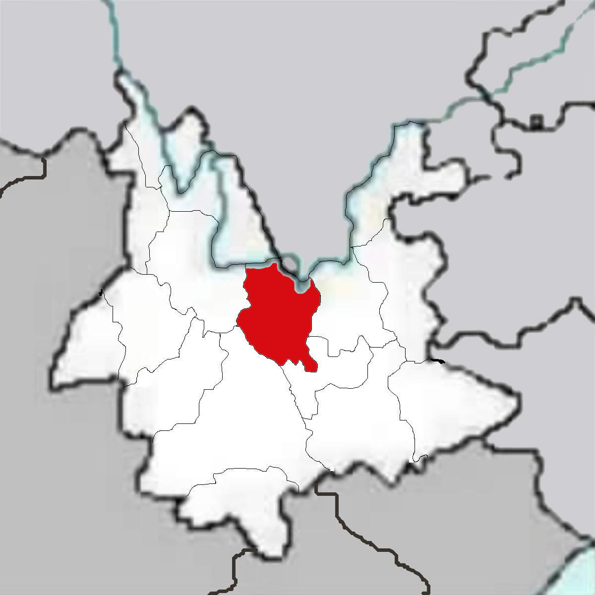 Yunan(云南) Province of China